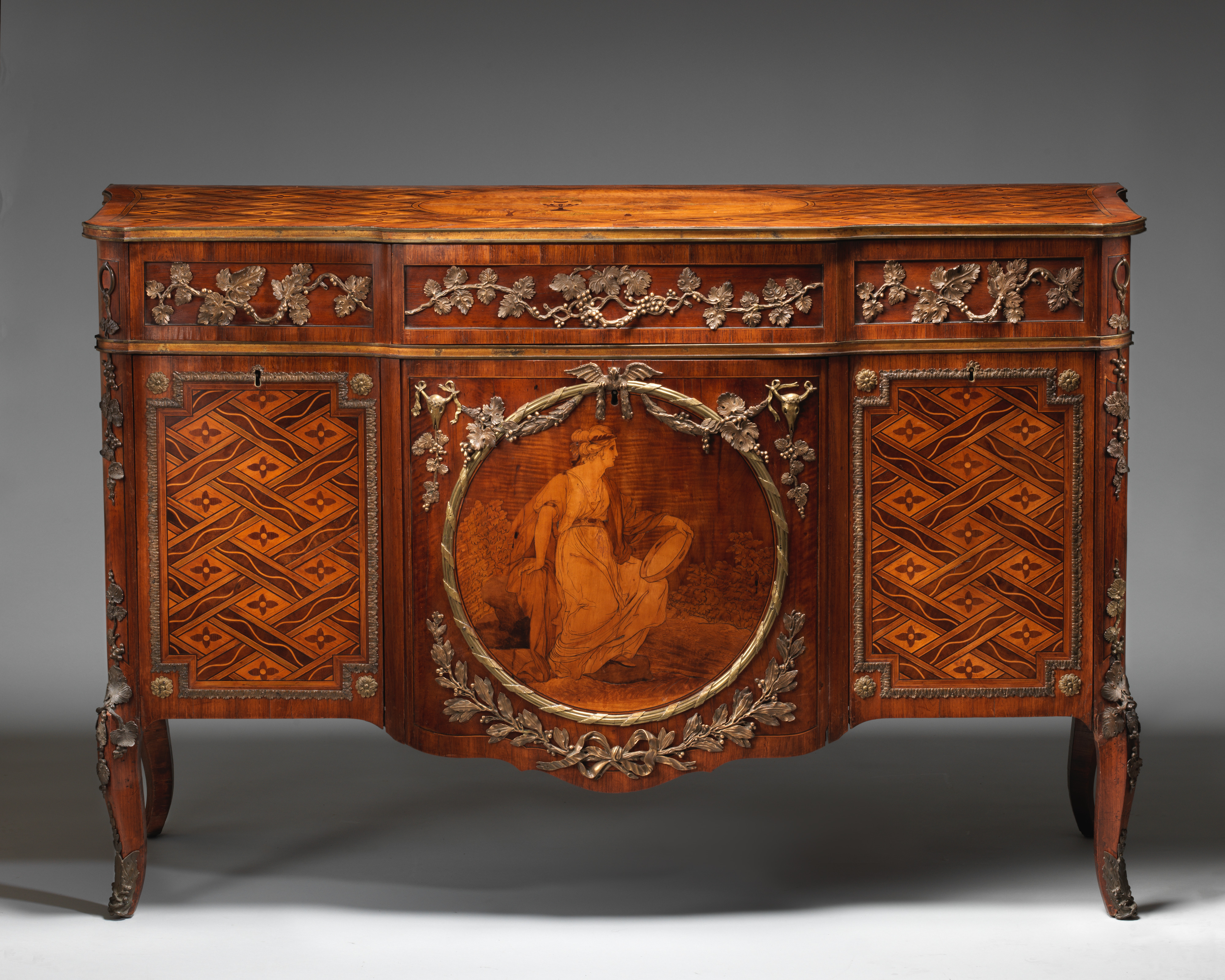 British; Commode; Woodwork-Furniture